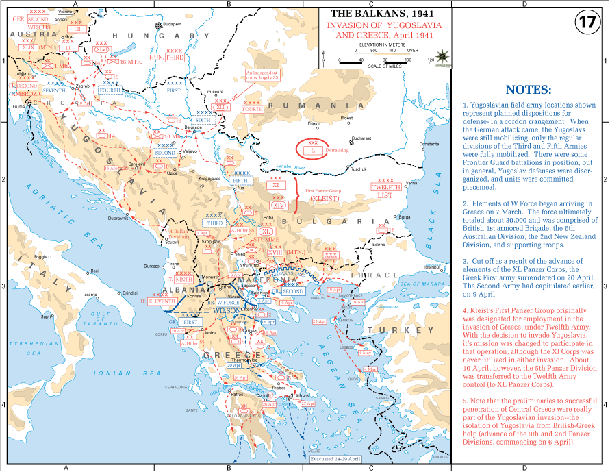 Map of the German offensives in the Balkans during 1941 (World War II Article)